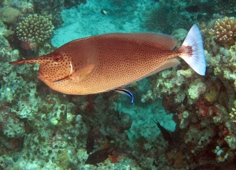 Naso brevirostris cleaned by Labroides dimidiatus in Maldives